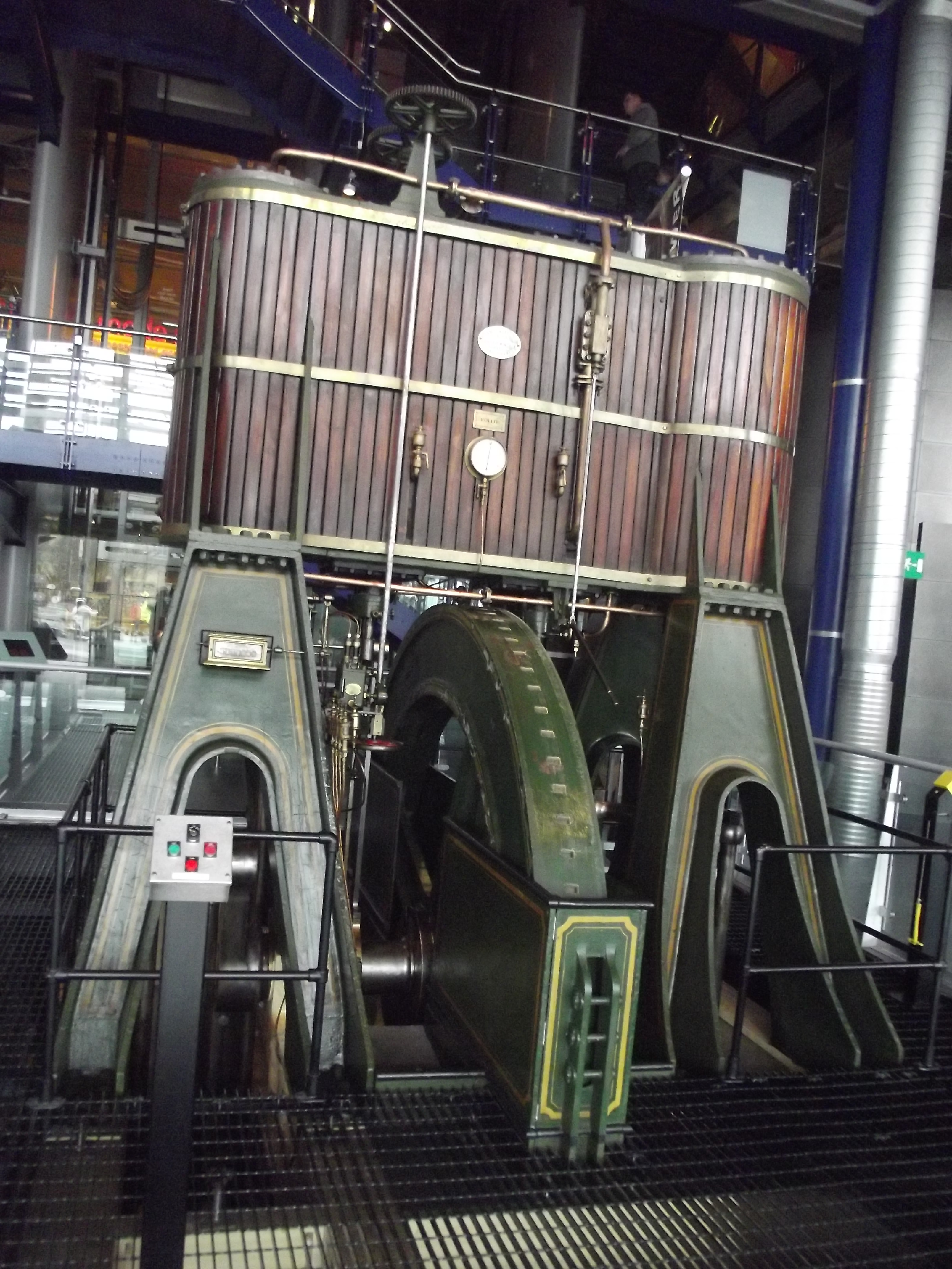 A collection of old machines / engines on Level 0 of Thinktank Birmingham Science Museum. The area called "Power Up" These were previously on display at the old Science Museum on Newhall Street (until 1997). This is the sewage pumping engine. Made by Messrs James Watt and Co, Soho, Birmingham between 1883 and 1884. It raised sewage from the drains so that it could be discharged when the tide would carry it out to sea. Used by the Corporation of Kingston-Upon-Hull from 1884 to 1957.